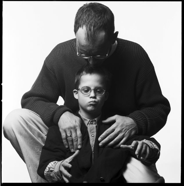 Father with his son (Down Syndrom)